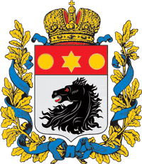 Coats of arms of Kharkov Gubernia